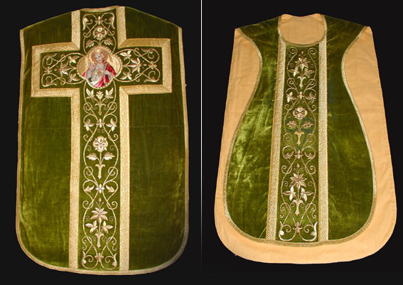 A "fiddleback" chasuble from the church of Saint Gertrude in Maarheeze in the Netherlands Made it myself